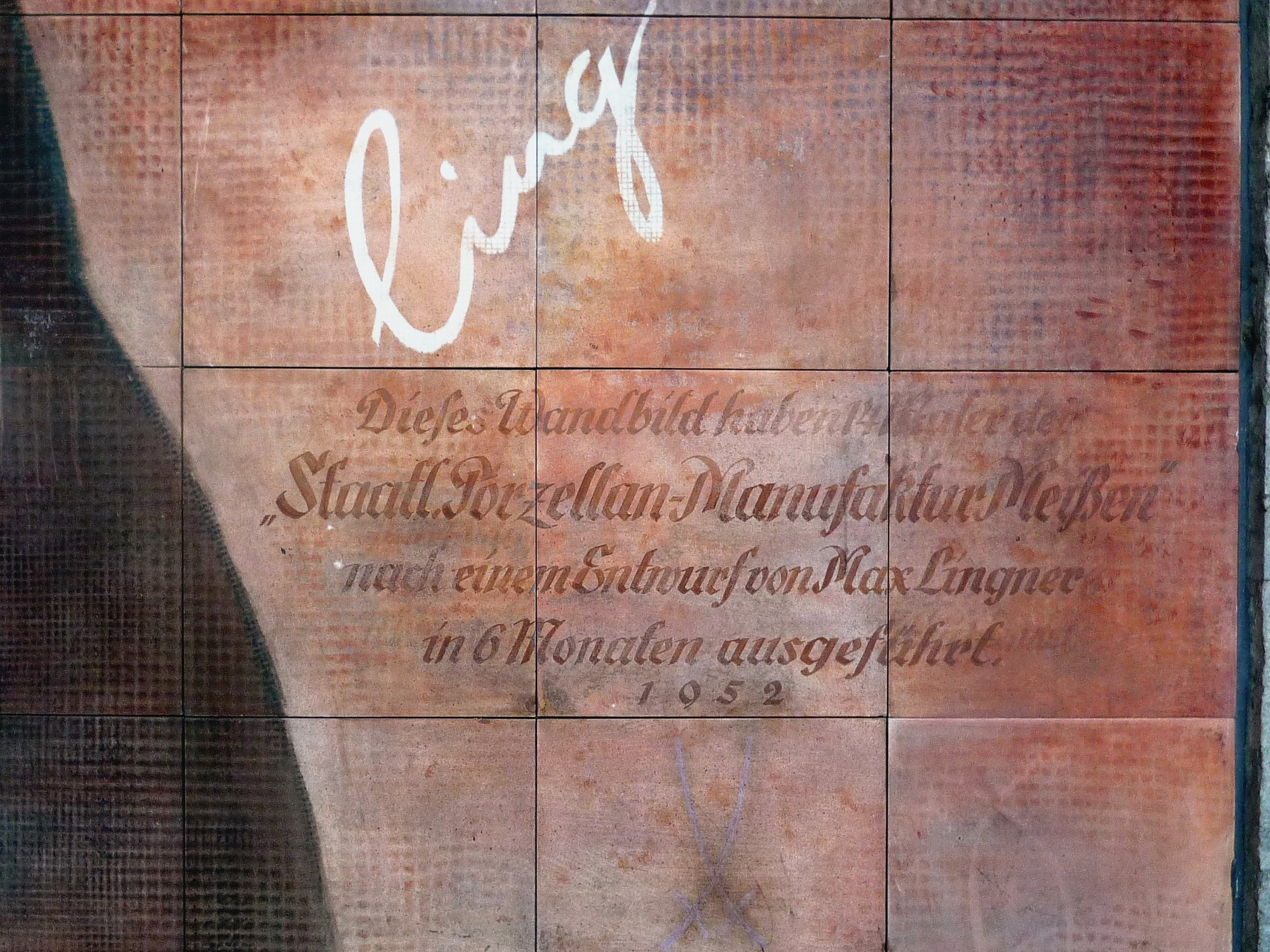 Mural painting "Building of the republic" by Max Lingner at the "Detlev-Rohwedder-Haus" in Berlin, the former "House of Ministries" of the GDR. The paintig was made in 1950-1953. Detail with signature of the artist.